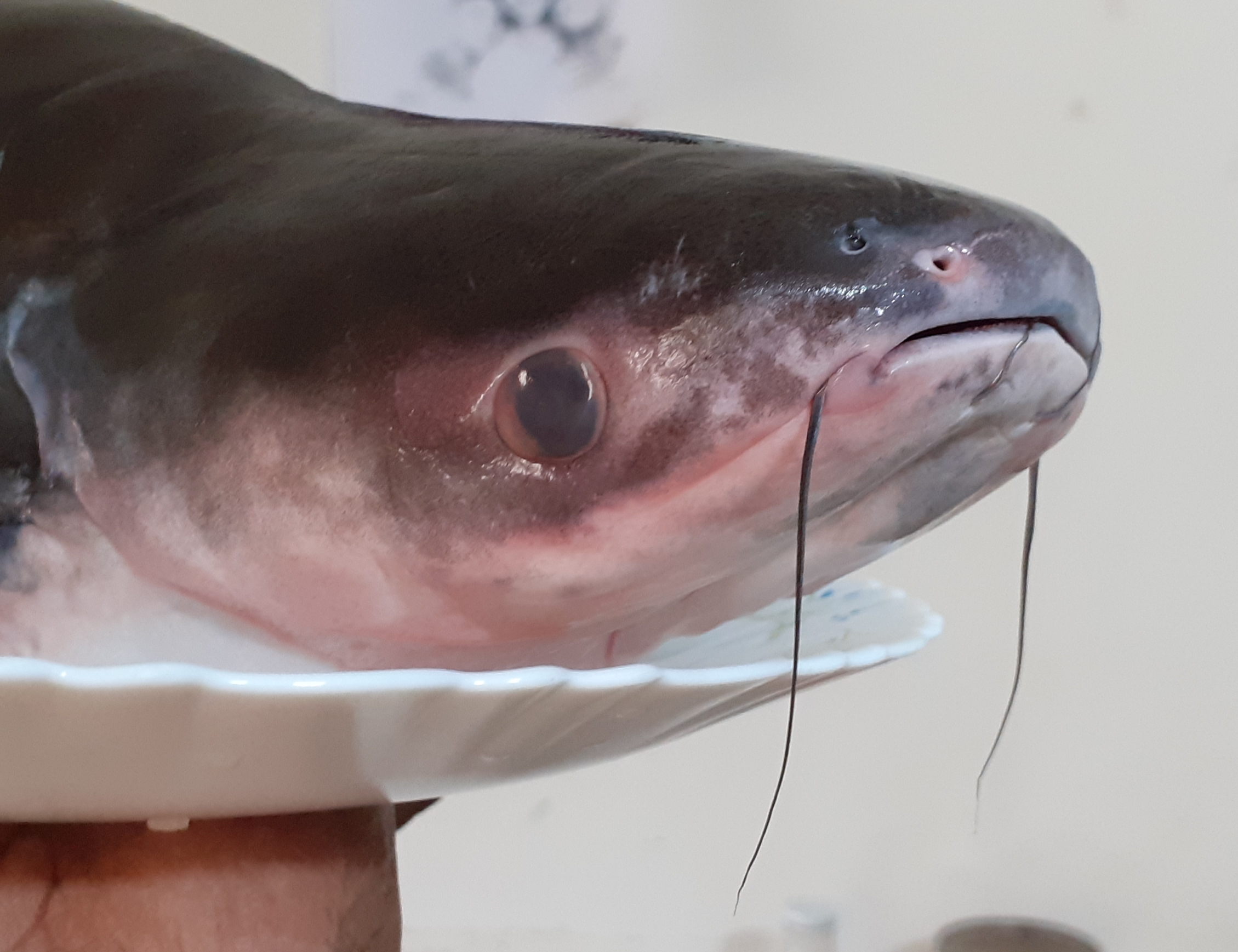 head of Basa fish